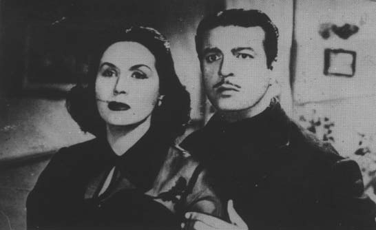 Leila Mourad/ Leyla Mourad/ Laila Morad and Anwar Wagdi in: Habib el Rouh (Darling of the Soul). Film still